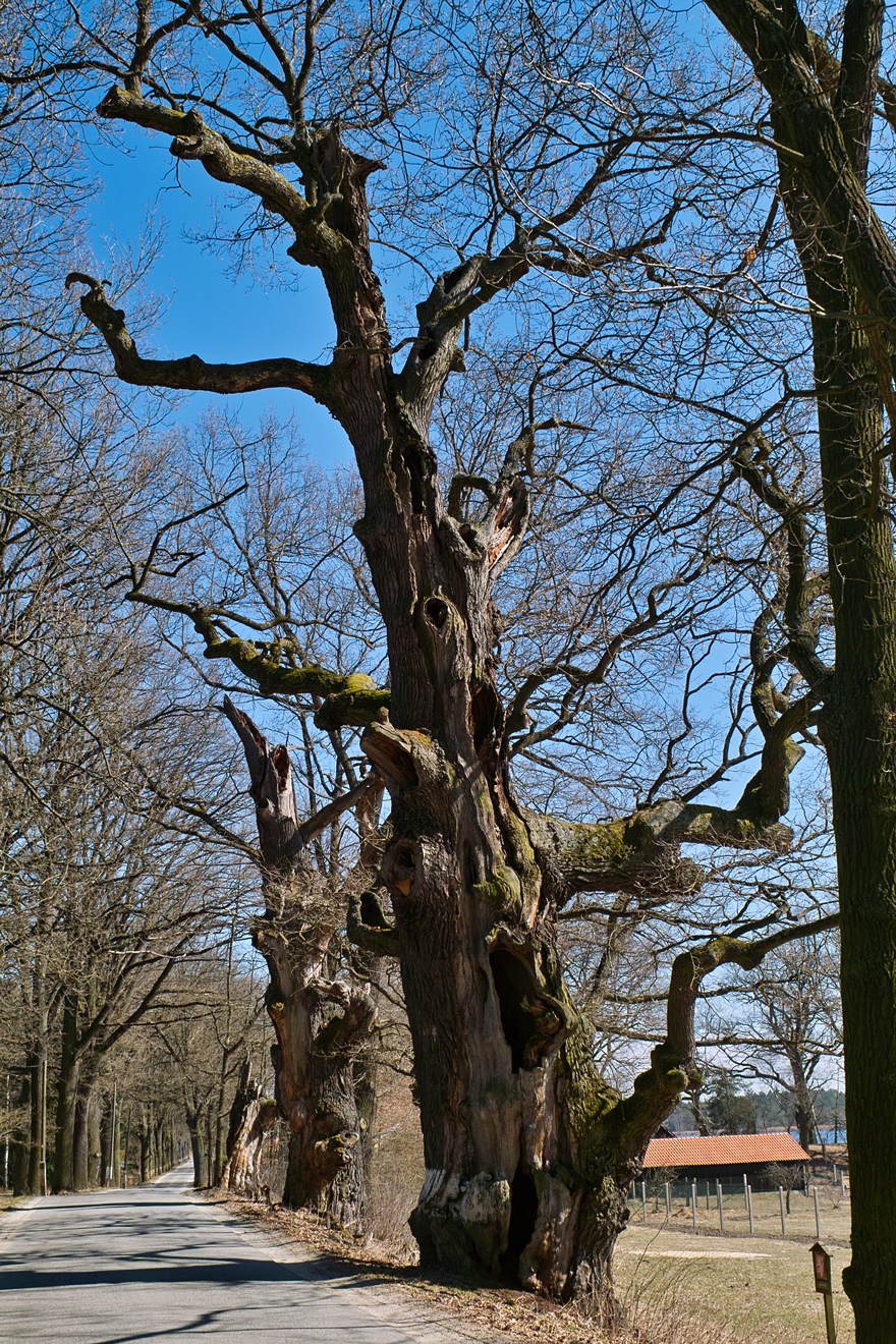 "The three brothers" - 450 years old oaks in Vitmanov, Czech Republic